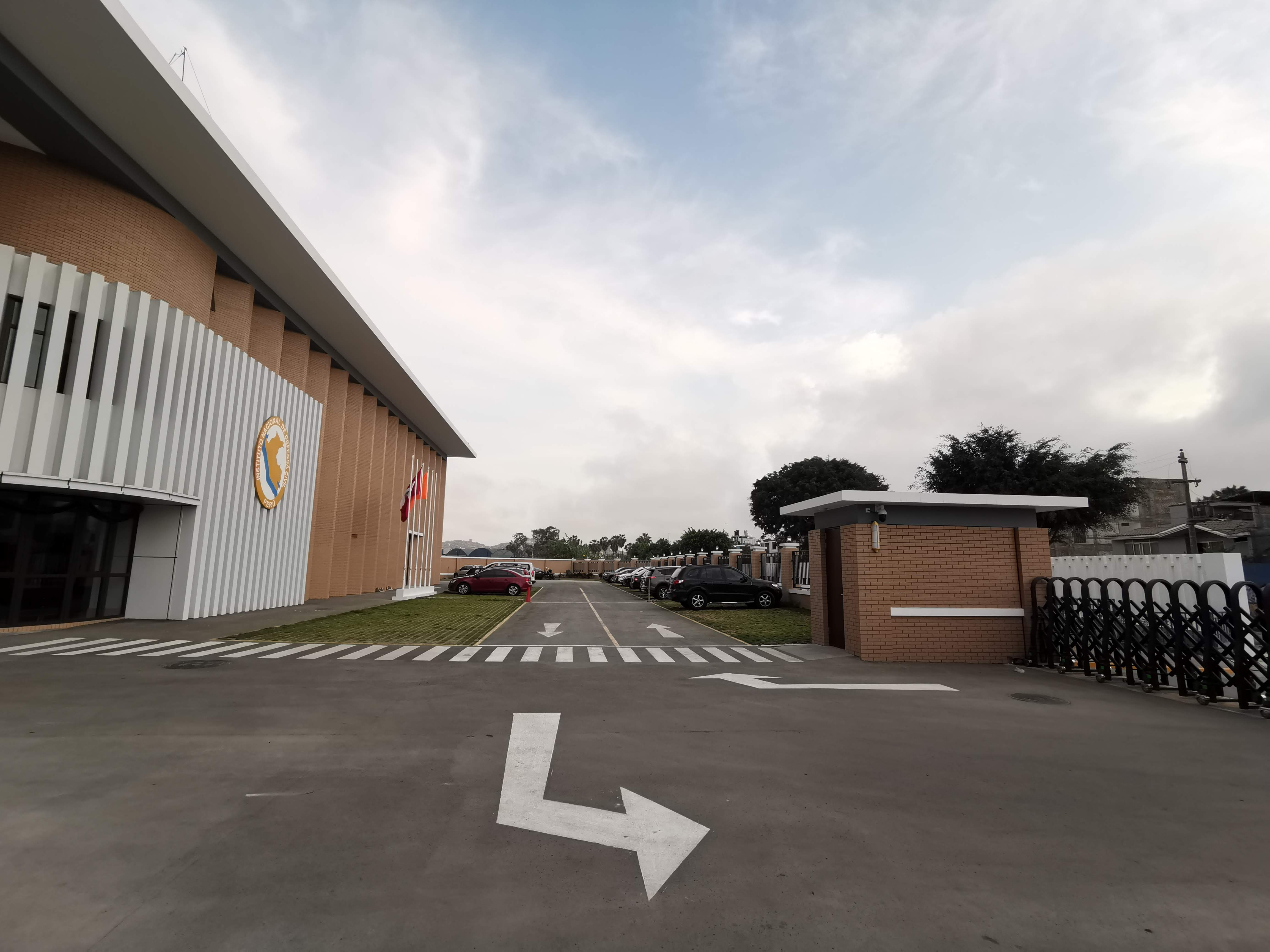 Facilities of the National Emergency Operations Center of the National Institute of Civil Defense of Peru (INDECI), in the district of Chorrillos, Lima.